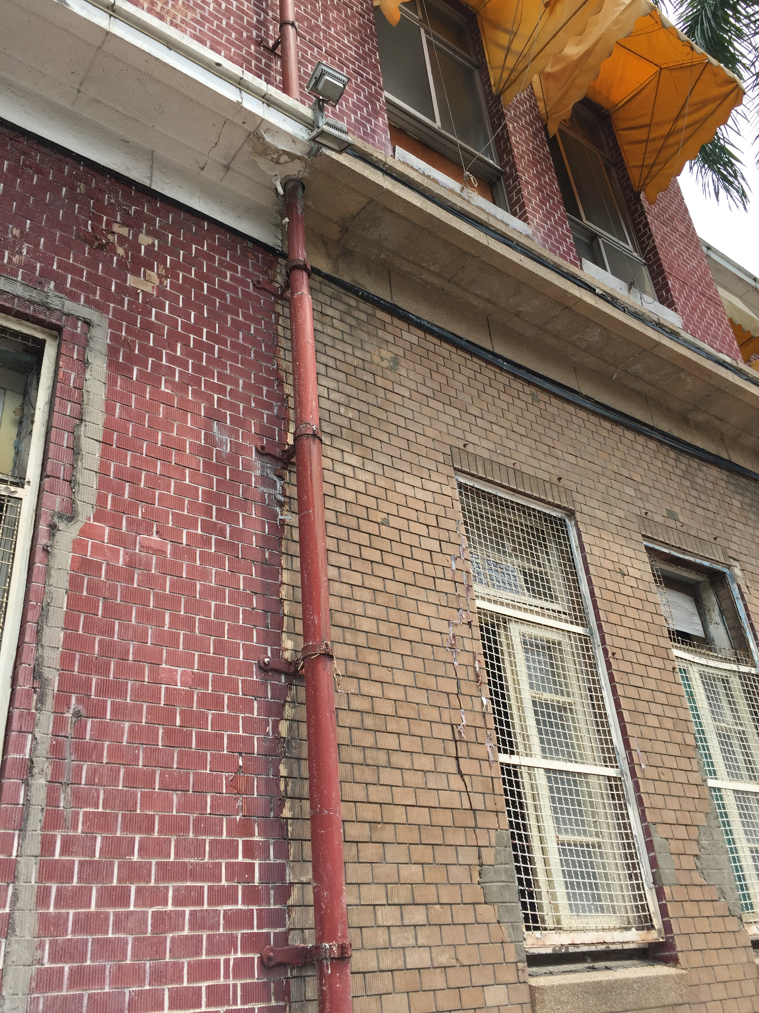 The wall of Former Tainan Police Department, Taiwan